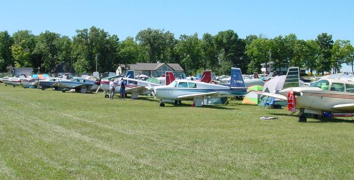 Mooney M20s gathered at the 2002 Mooney Caravan to Oshkosh. Taken by author at Oshkosh EAA AirVenture, 2002